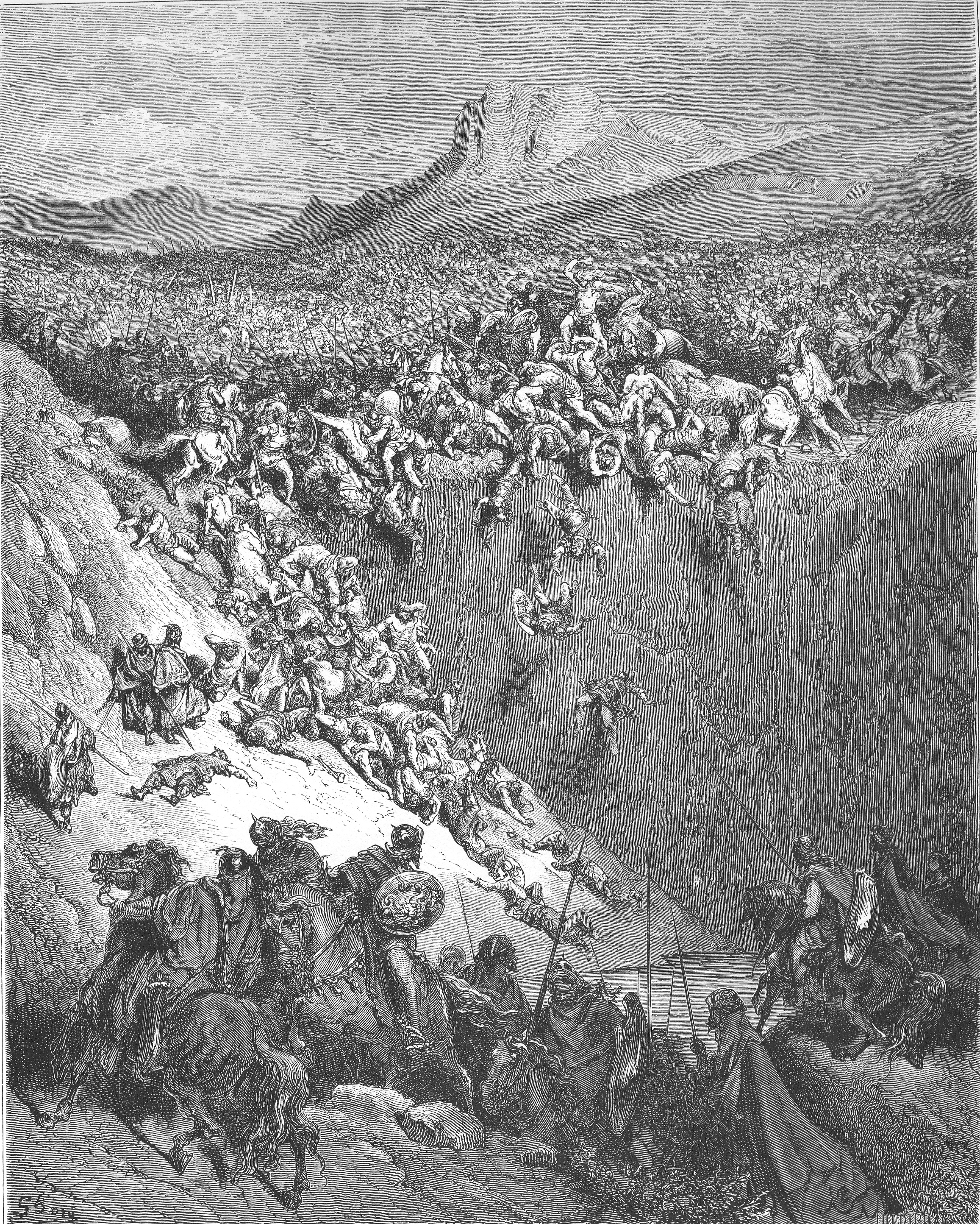 Samson Destroys the Philistines with an Ass' Jawbone (Jud. 15:1-17)